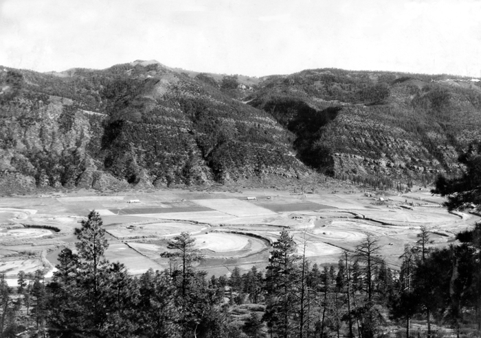 Animas Valley above Animas City — Colorado. There is topographic unconformity between the maturely eroded upland and the youthful gulches cutting the lower slope. The steepness of that slope and the truncation of interstream spurs are largely due to glacial abrasion. The apparent old age of the stream is due to its meandering on an alluvial flat. This flat is underlain by silt deposited above the dam formed by the Wisconsin terminal moraine. As the outlet through the dam was deepened, many oxbows were cut off. Similar conditions are found in several other valleys. La Plata County. October 20, 1903. Plate 15, U.S. Geological Survey Professional paper 166. 1932. Professional Paper-0166 Digital File:ccw00594 ID. Cross, C.W. 594 Original found at [1] using keywords "Animas" and "Valley."